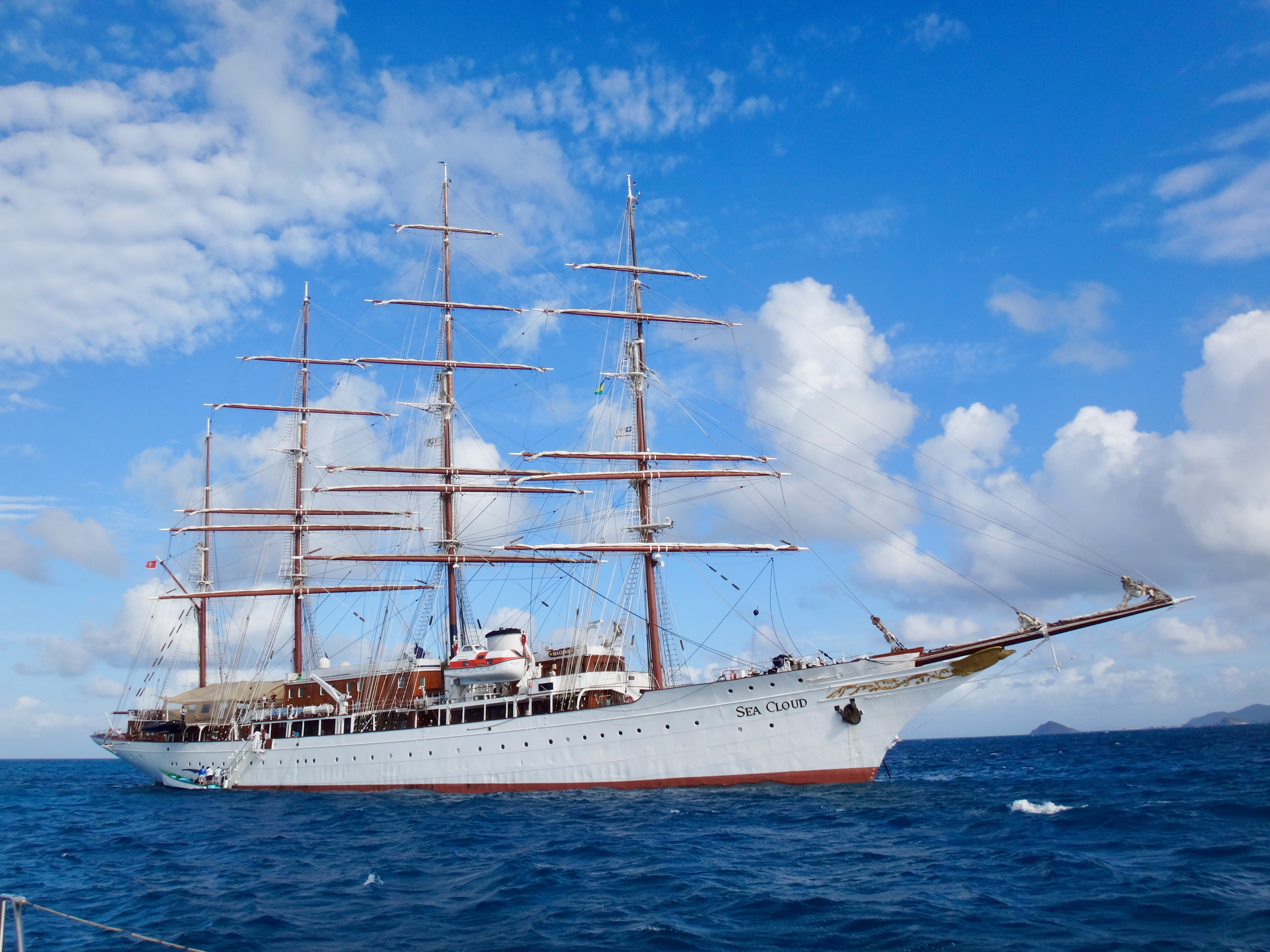 Sea Cloud off Tobago Cays